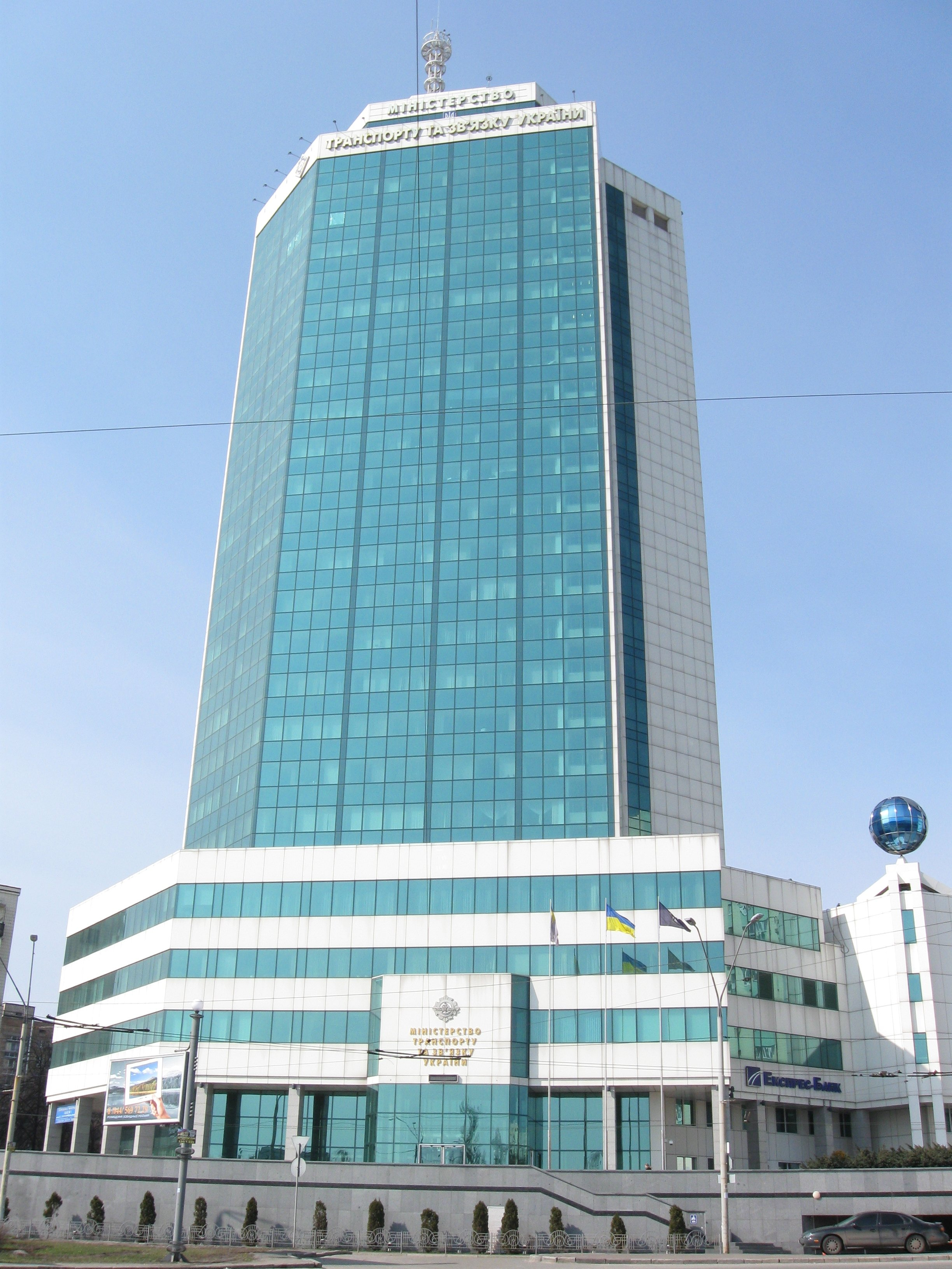 Ukraine's Ministry of Transport and Communications